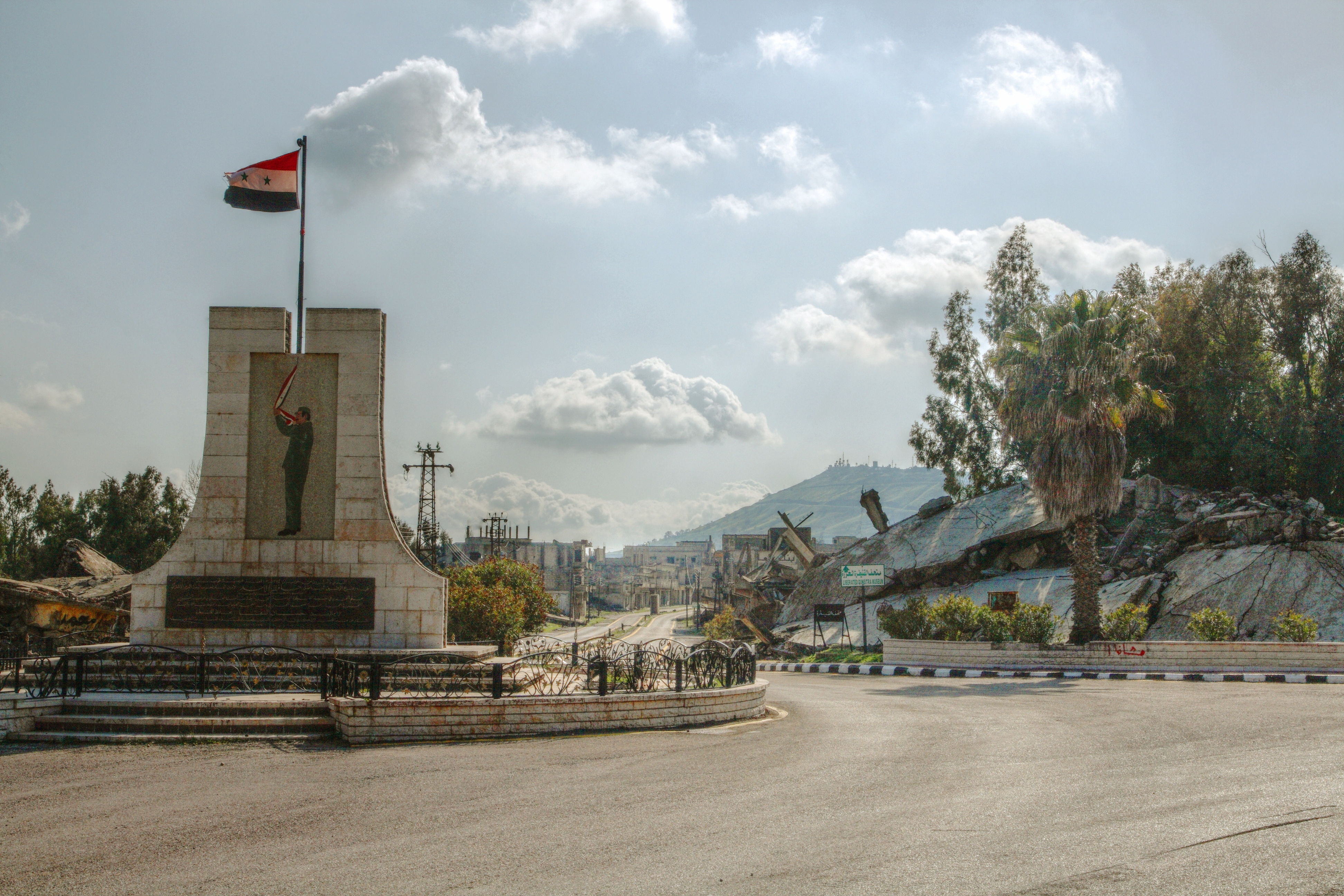 Quneitra is a town on the boarder of the Golan Heights. It was occupied by Israel in 1967, and almost completely destroyed before the Israeli withdrawal in 1974. It is now maintained as a propaganda exhibit by the Syrians.